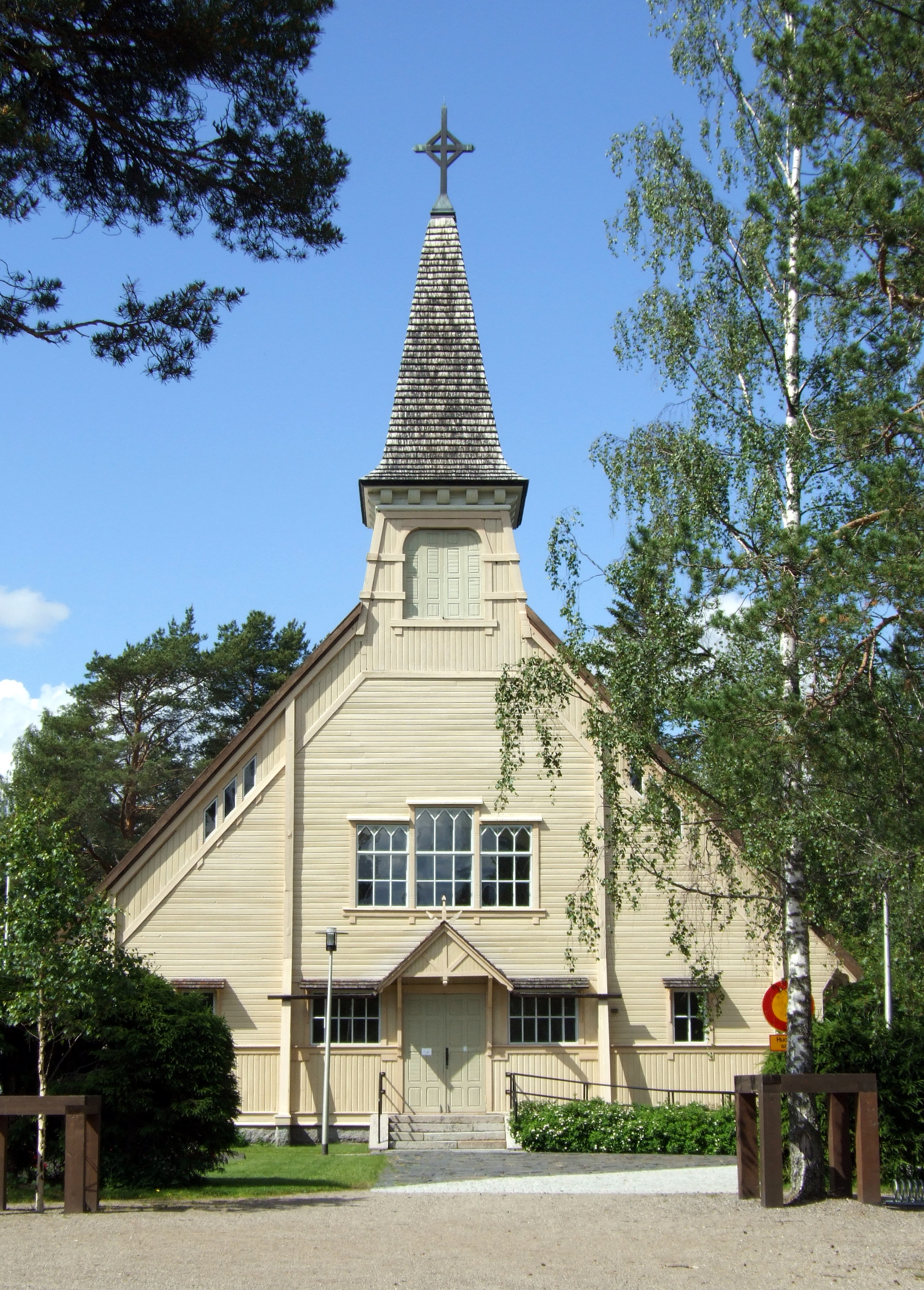 Church of Pyhäntä in Pyhäntä Municipality in Finland. Completed in 1909 and designed by architect W. A. Tötterström.